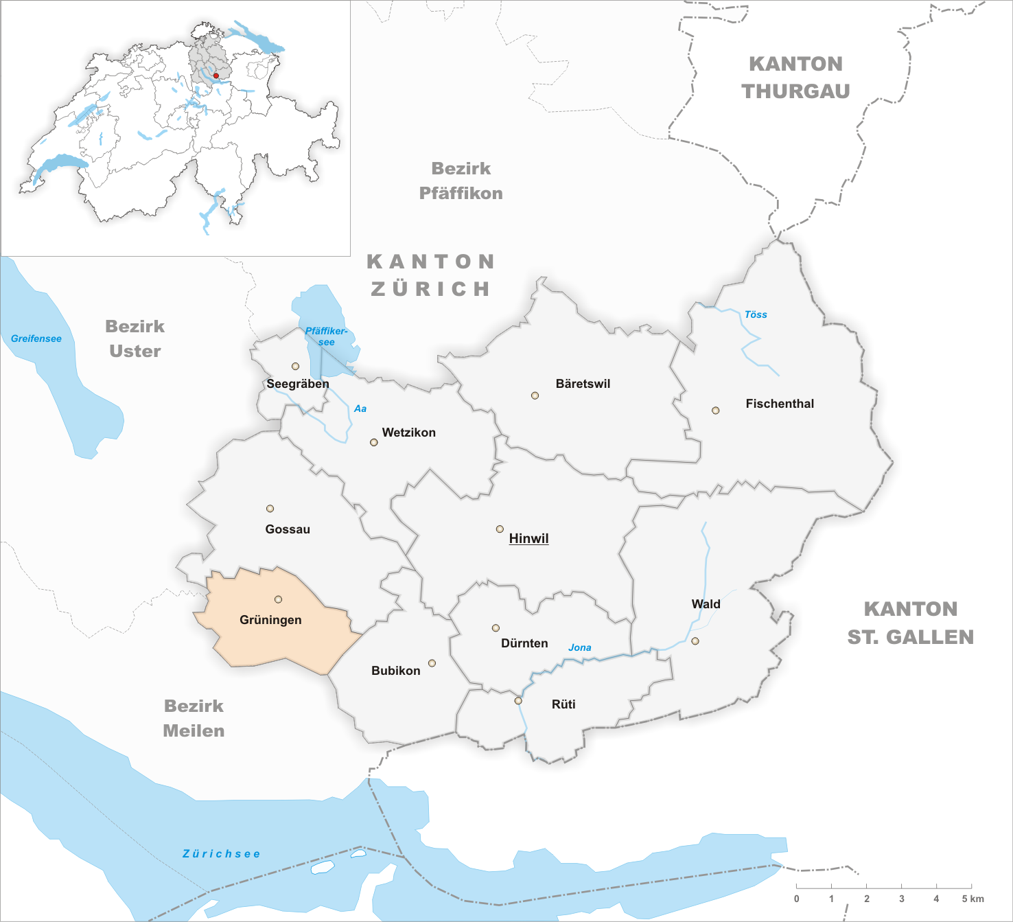 Municipality Grüningen